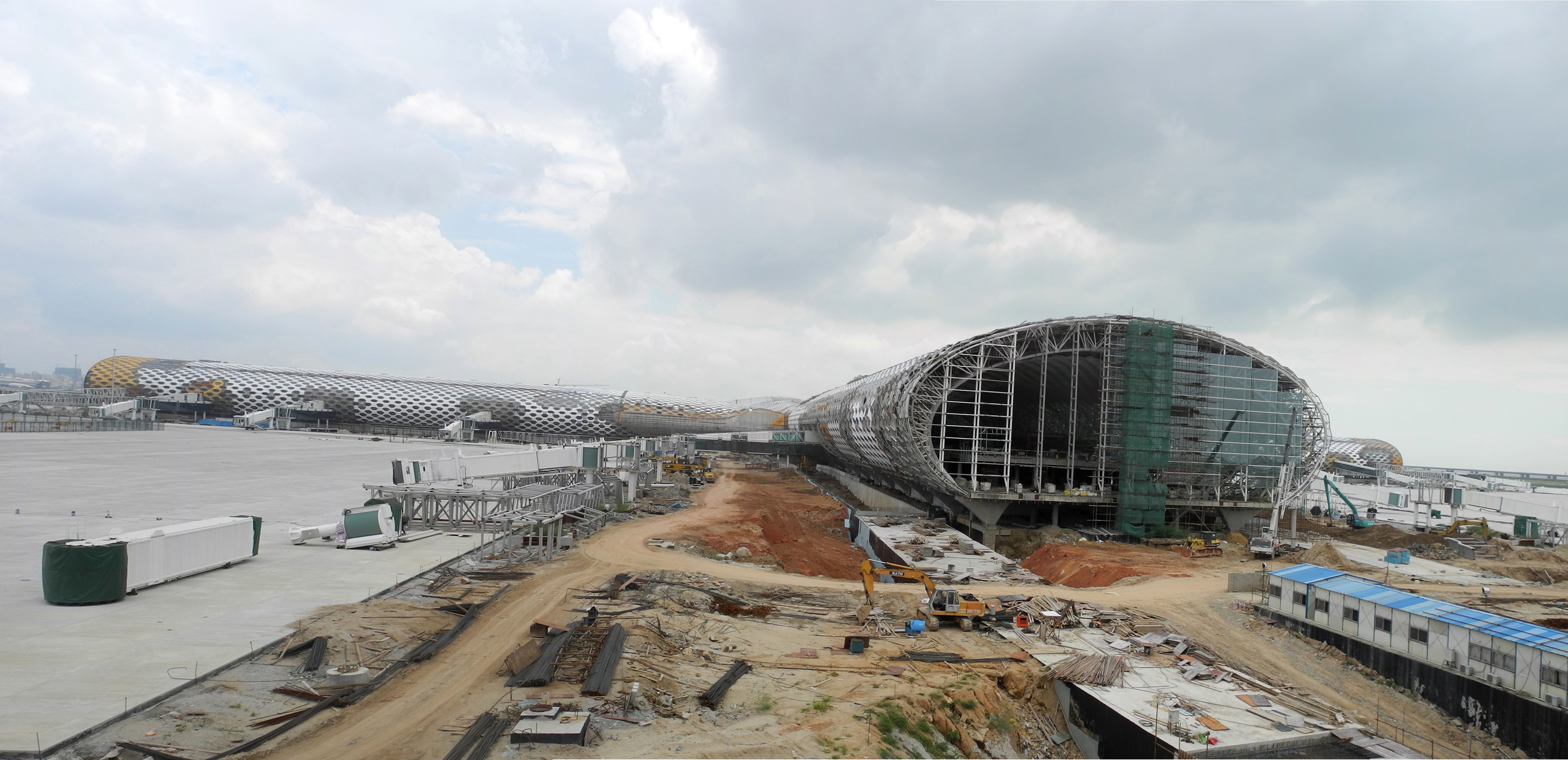 Building Site Shenzhen International Airport - Panorama Architect: Massimiliano Fuksas Structure Facade & Geometry: Knippers Helbig